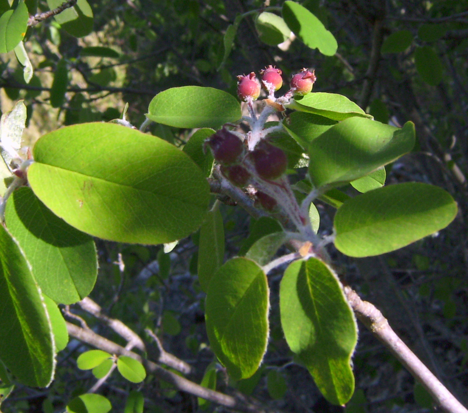 Amelanchier ovalis with leaves and young fruits, Castelltallat, Catalonia